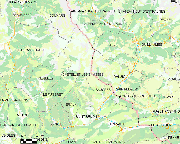 Map commune FR insee code 04042.png Légende